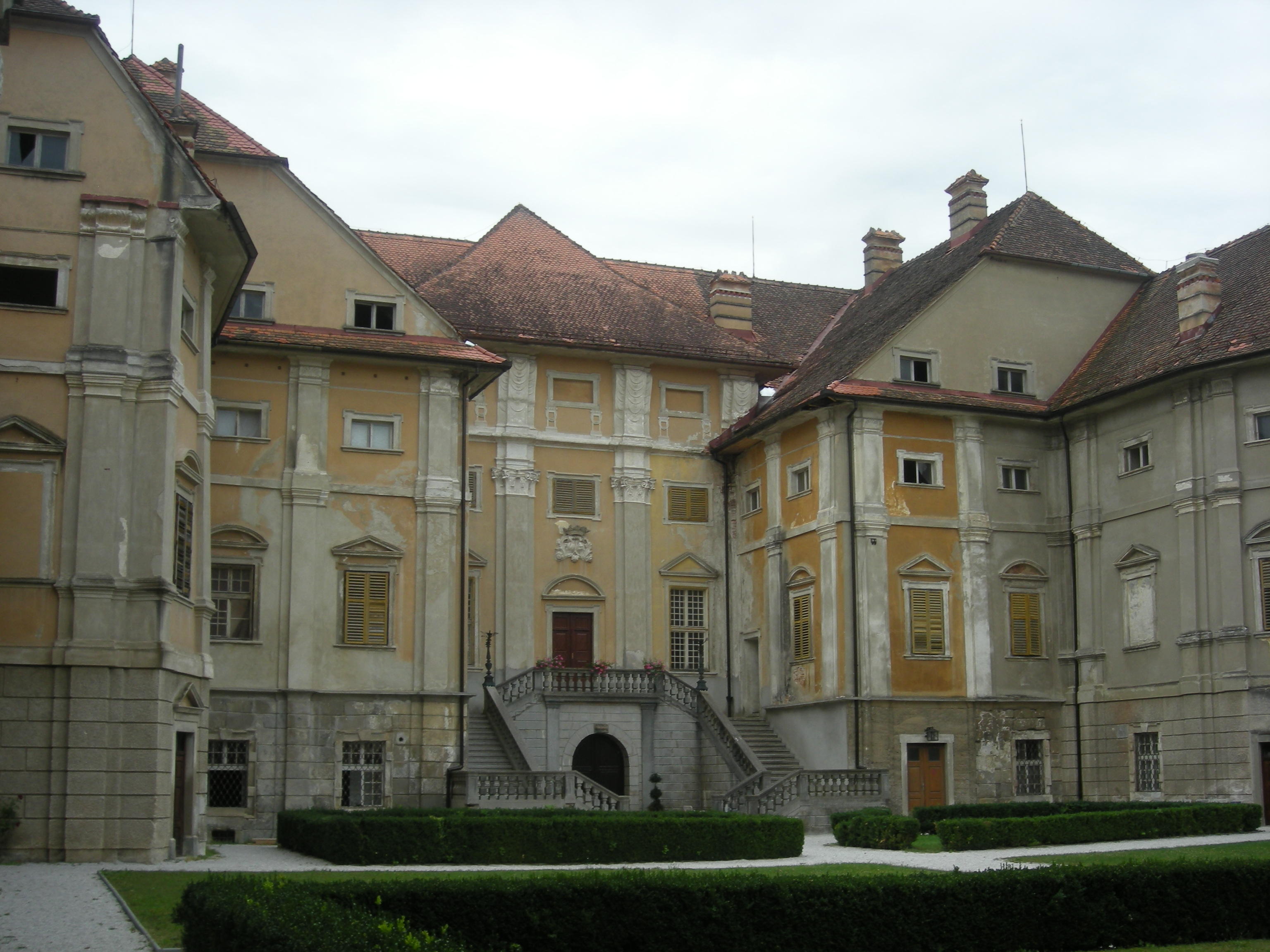 Castle Štatenberg, Slovenia